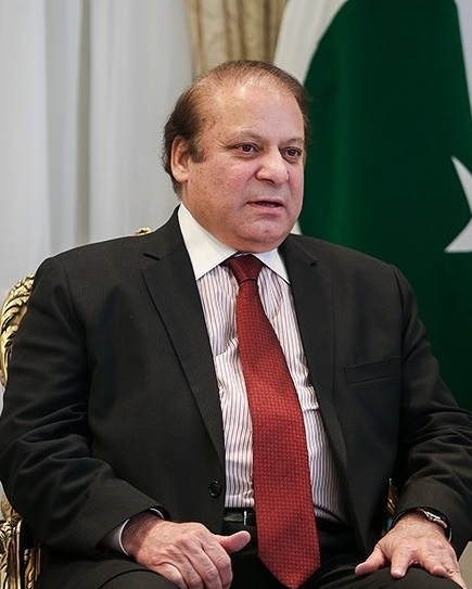 Pakistani Prime Minister Nawaz Sharif during a state visit of Iran